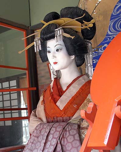 Jidaigeki dummy Toei Uzumasa Studios Kyoto Japan 2002 I took this photograph and contribute it to the public domain.